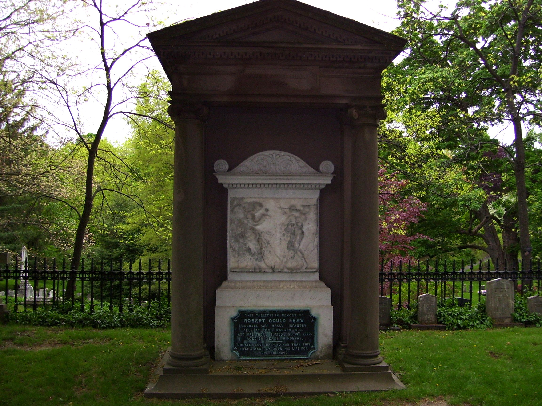 My 2008 photo of the Robert Gould Shaw memorial at Mount Auburn Cemetery in Cambridge, Massachusetts.